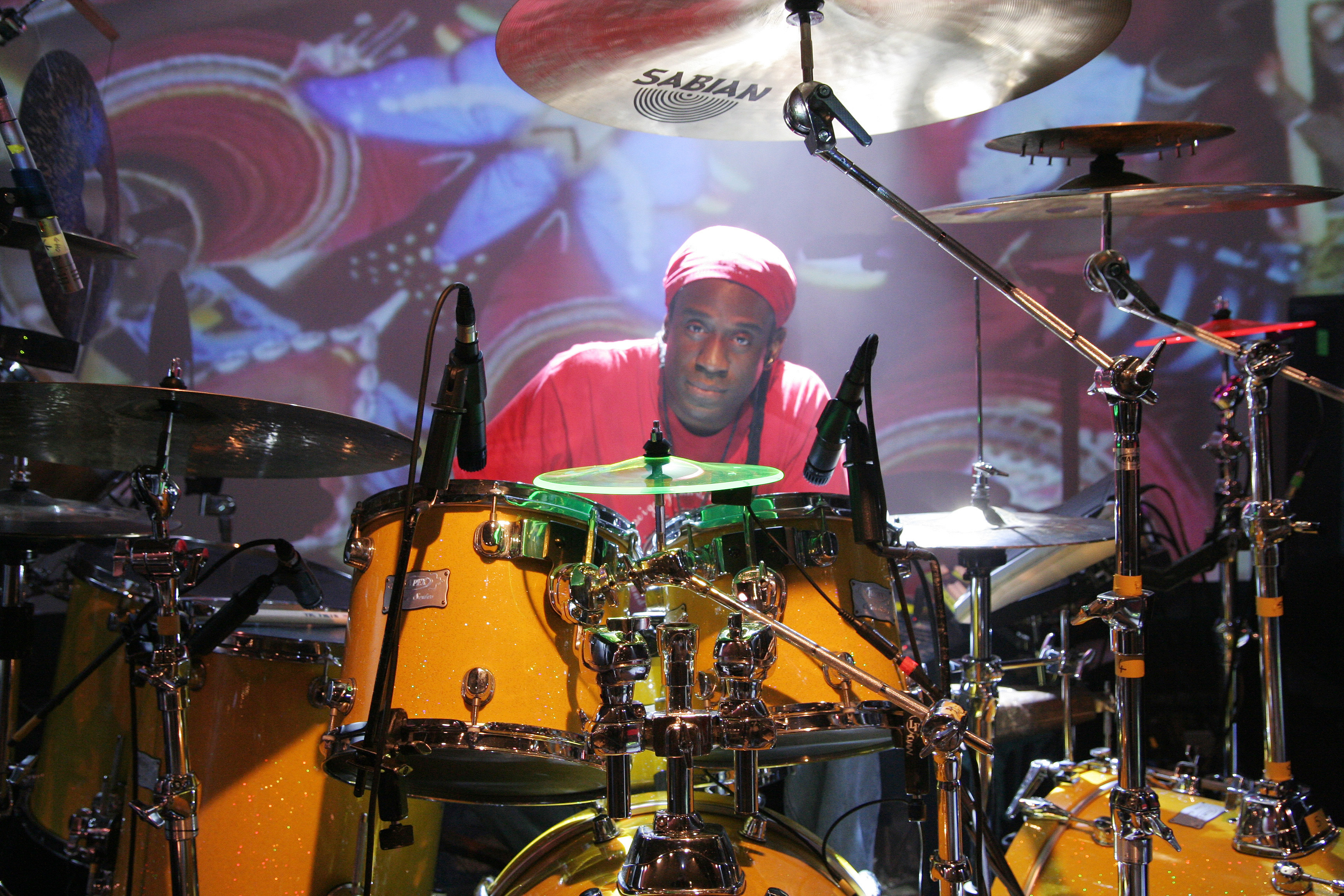 Will Calhoun in concert with Living Colour at the Highline Ballroom on October 30, 2009. Photo by Lia Chang